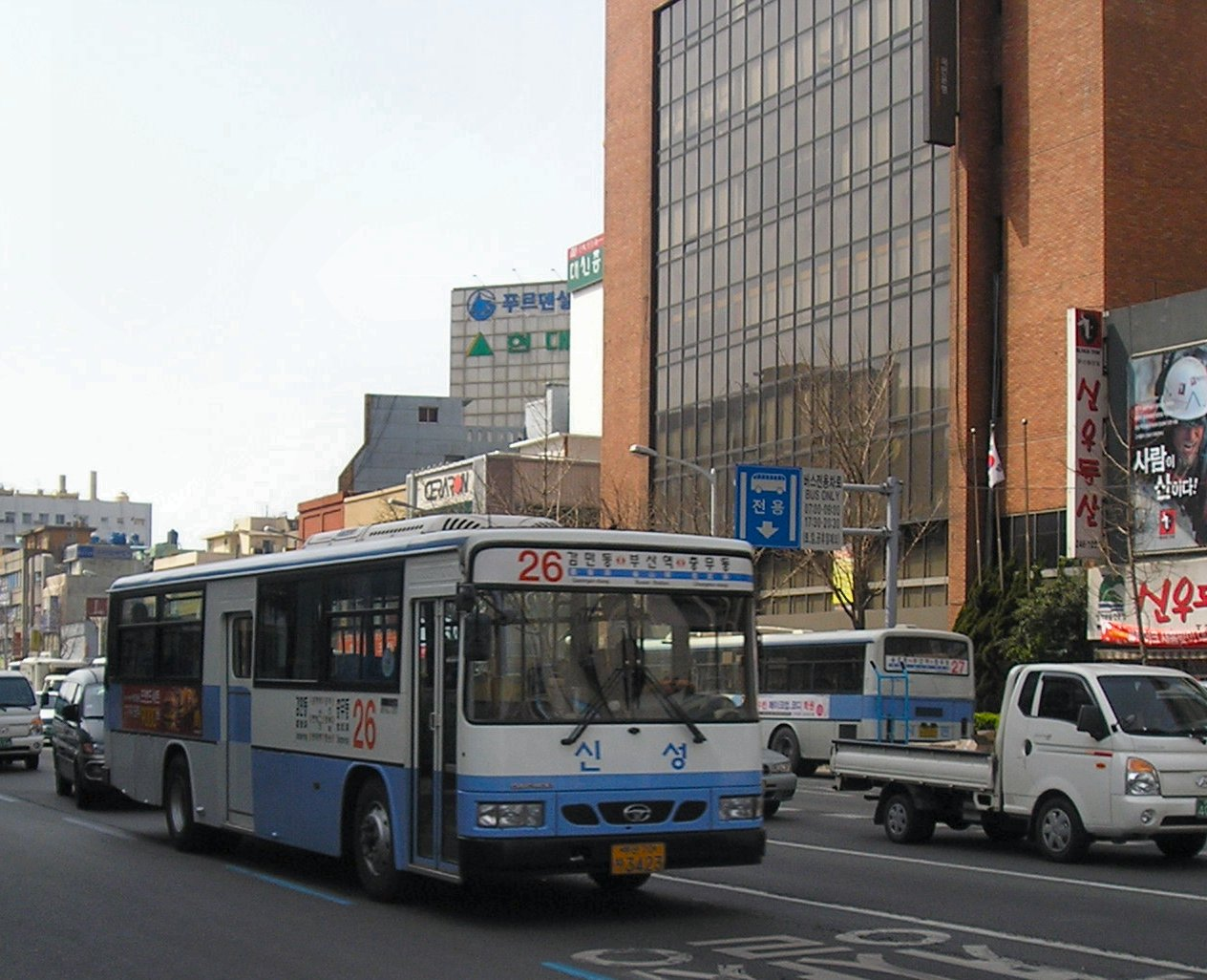 The route 26 in Busan, Korea